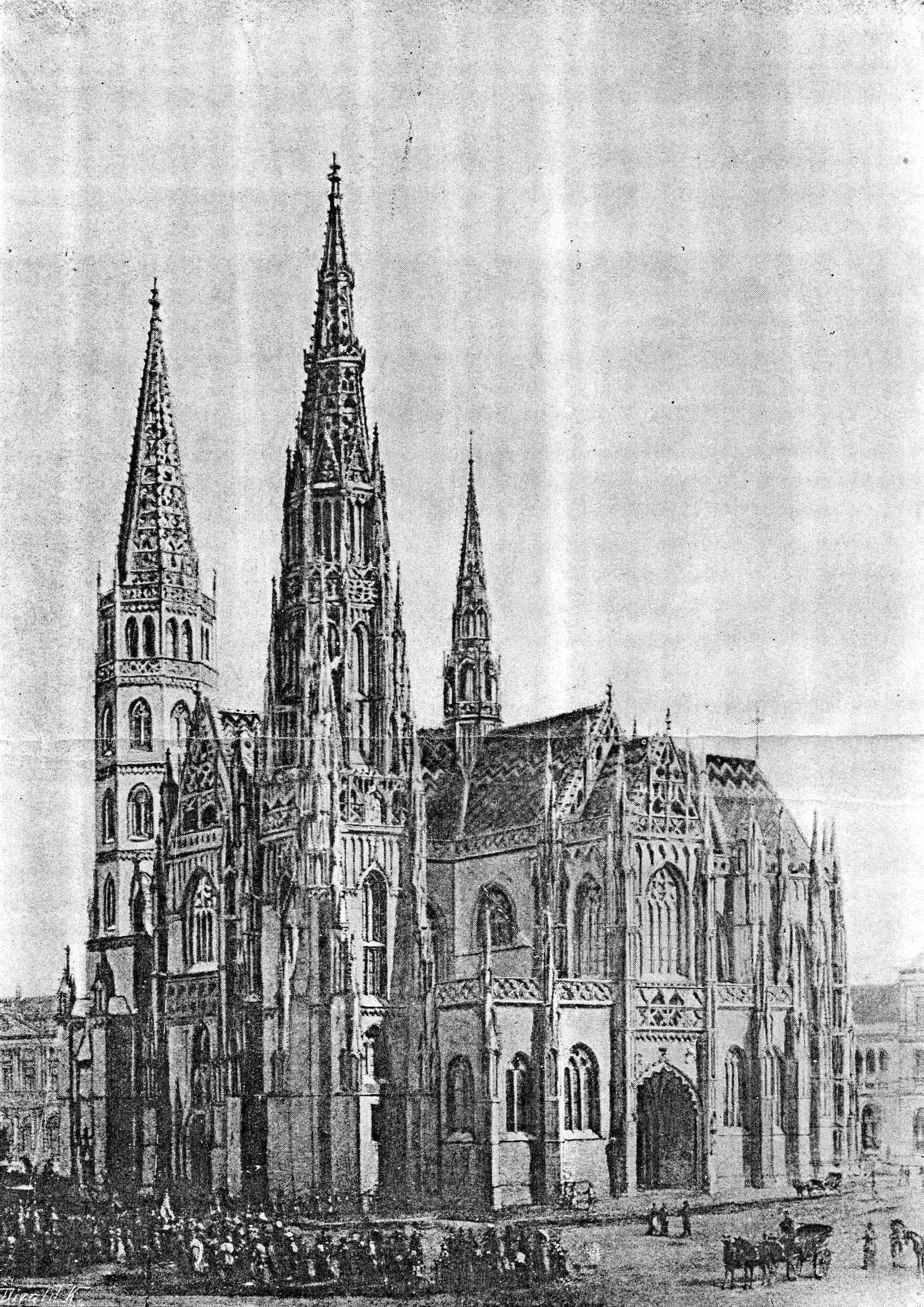 Imagination of complexion of St Elisabeth Cathedral Kosice